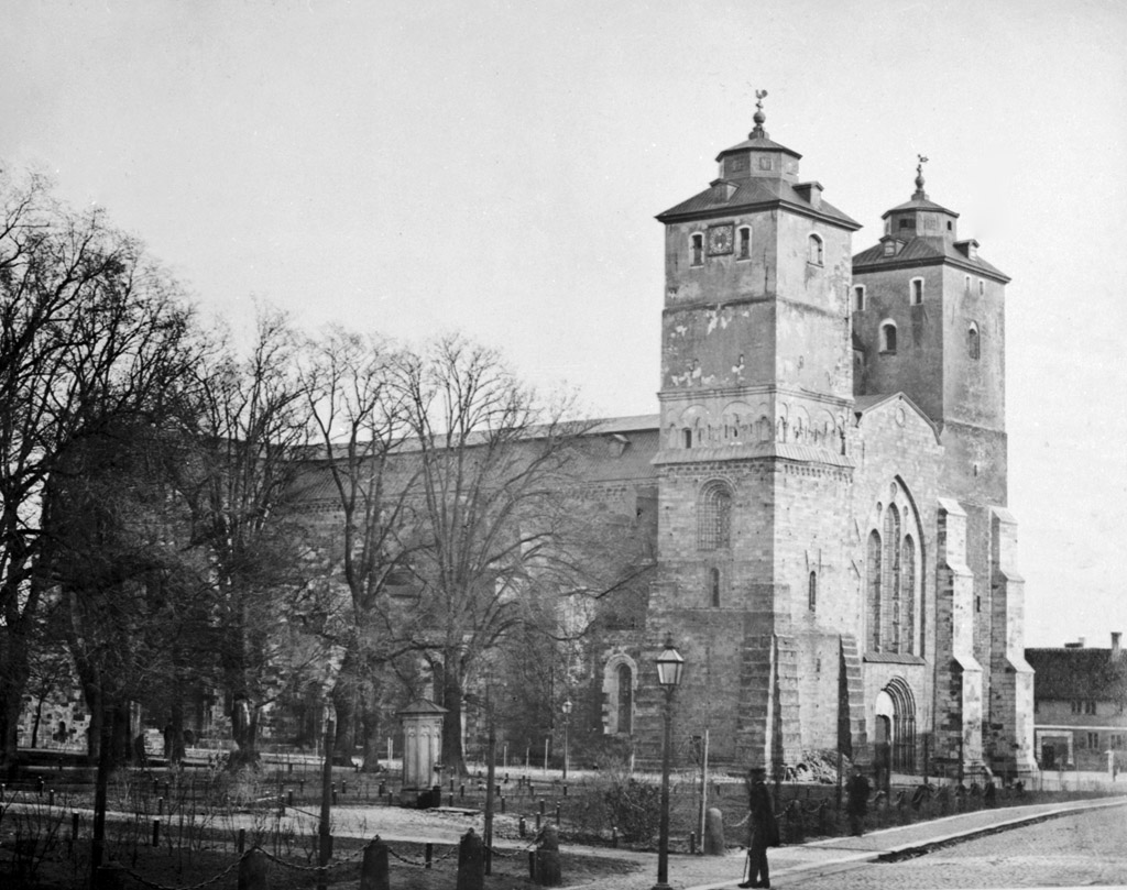 Lund Cathedral as it looked before the restauration by Helgo Zettervall in 1860-1880. The Romanesque cathedral, one of the oldest churches in Scandinavia, was inaugurated in 1145. From C. G. Brunius Archive Collection